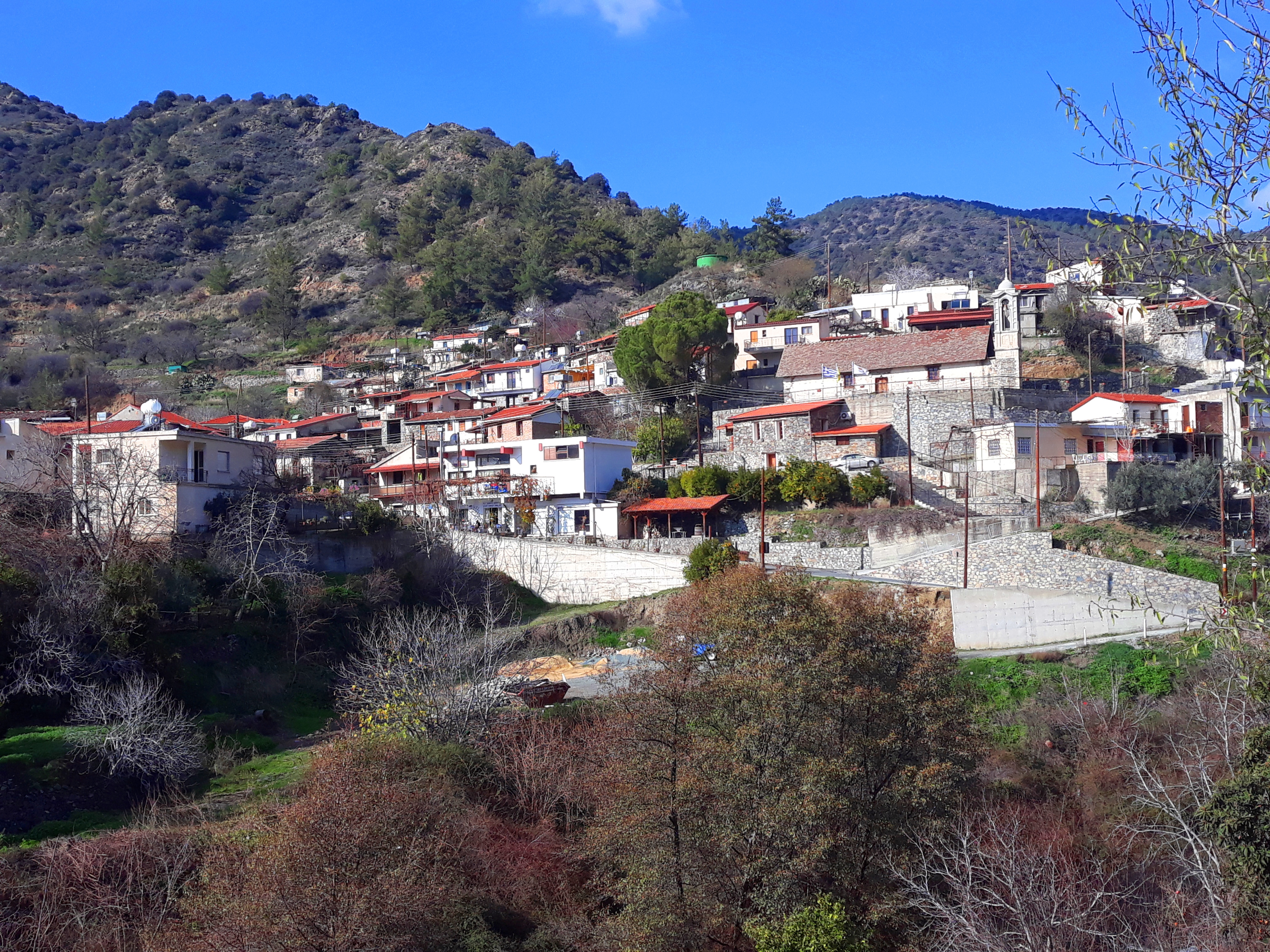 View of Agios Pavlos, Cyprus.